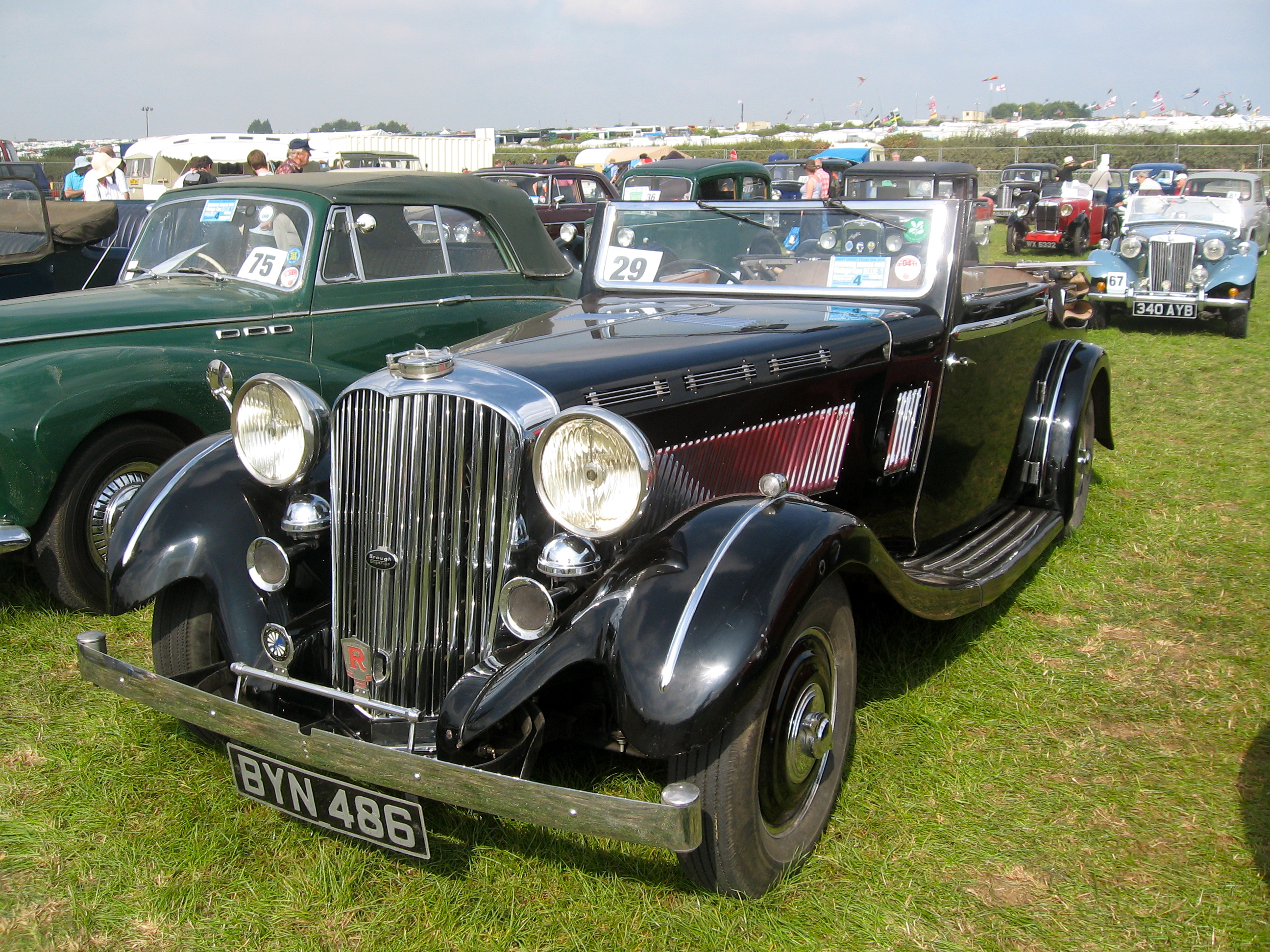 Brough Superior tourer